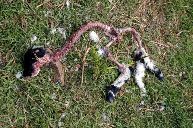 Picked clean Found alongside foxes den. This little lamb didn't have much of a life, but perhaps longer than those that end up on a dinner plate!